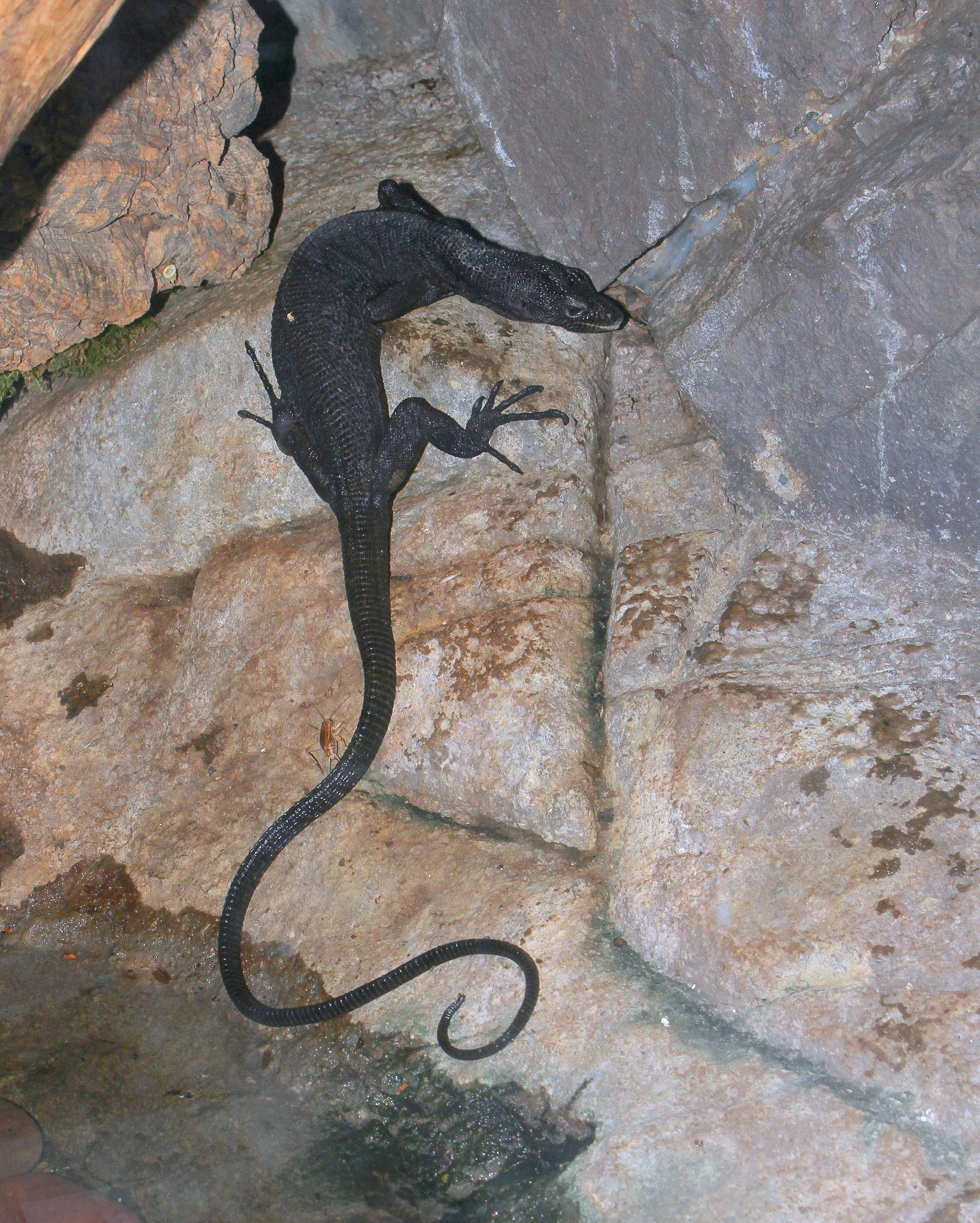 Black tree monitor at the Cincinnati Zoo.